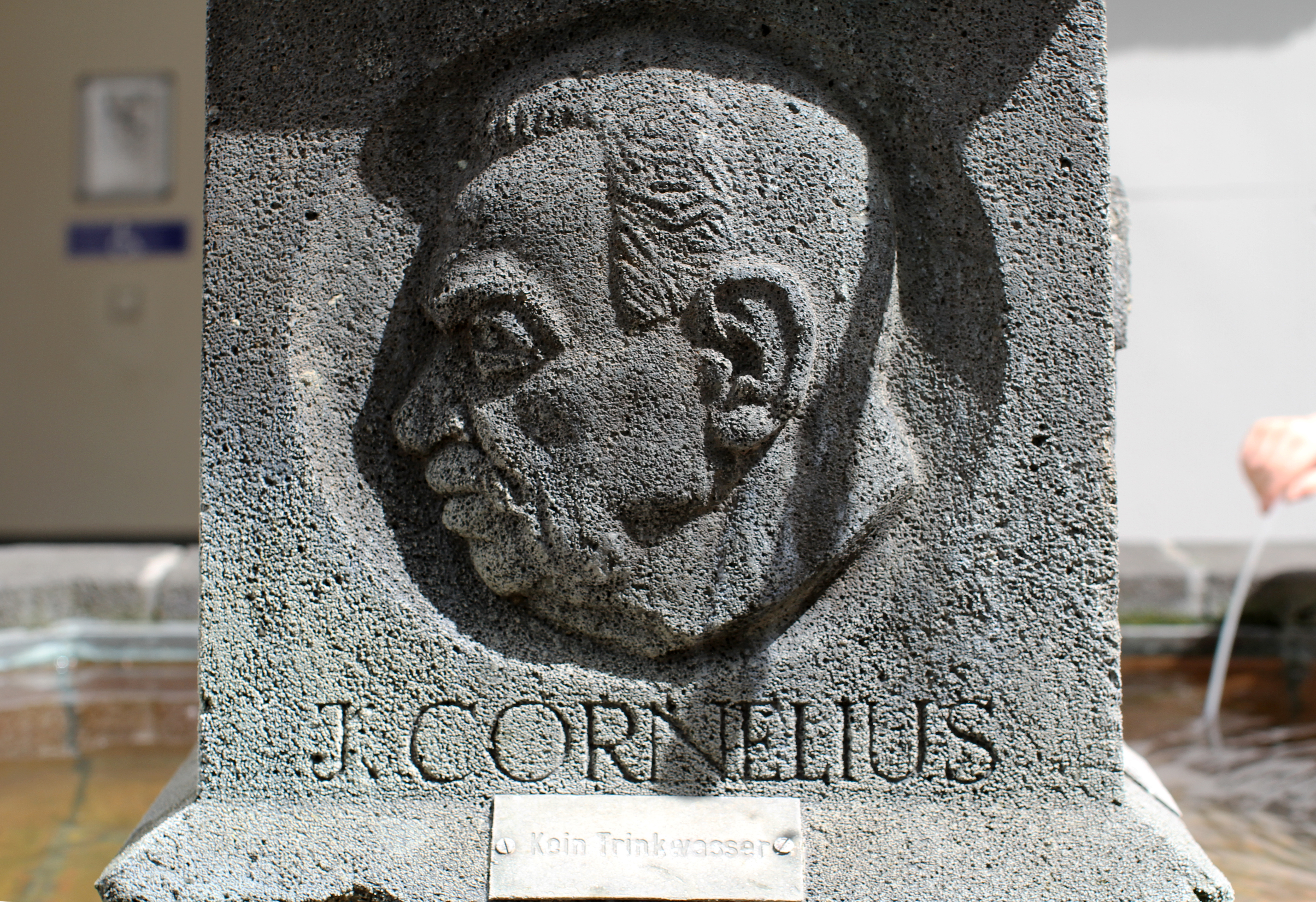 Relief of Josef Cornelius. He was a dialect poet of Koblenz in the 20th century